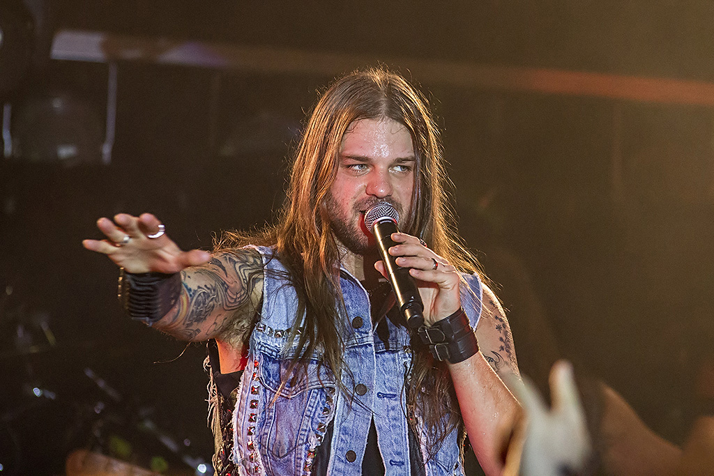 Stu Block performing with Iced Earth in 2012.